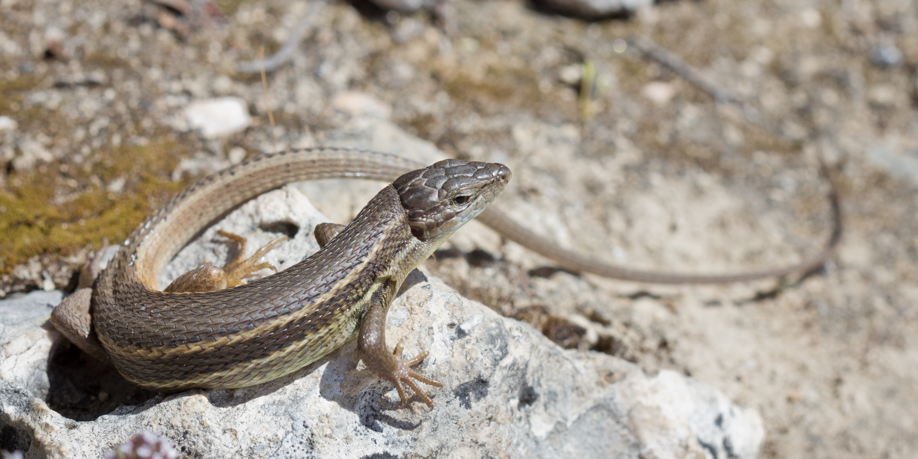 Large Psammodromus (Psammodromus algirus) in the Community of Madrid, Spain. It is noticeable how the tail is a bit more than twice as long as body and head together. This specimen was more than 15 cm long.